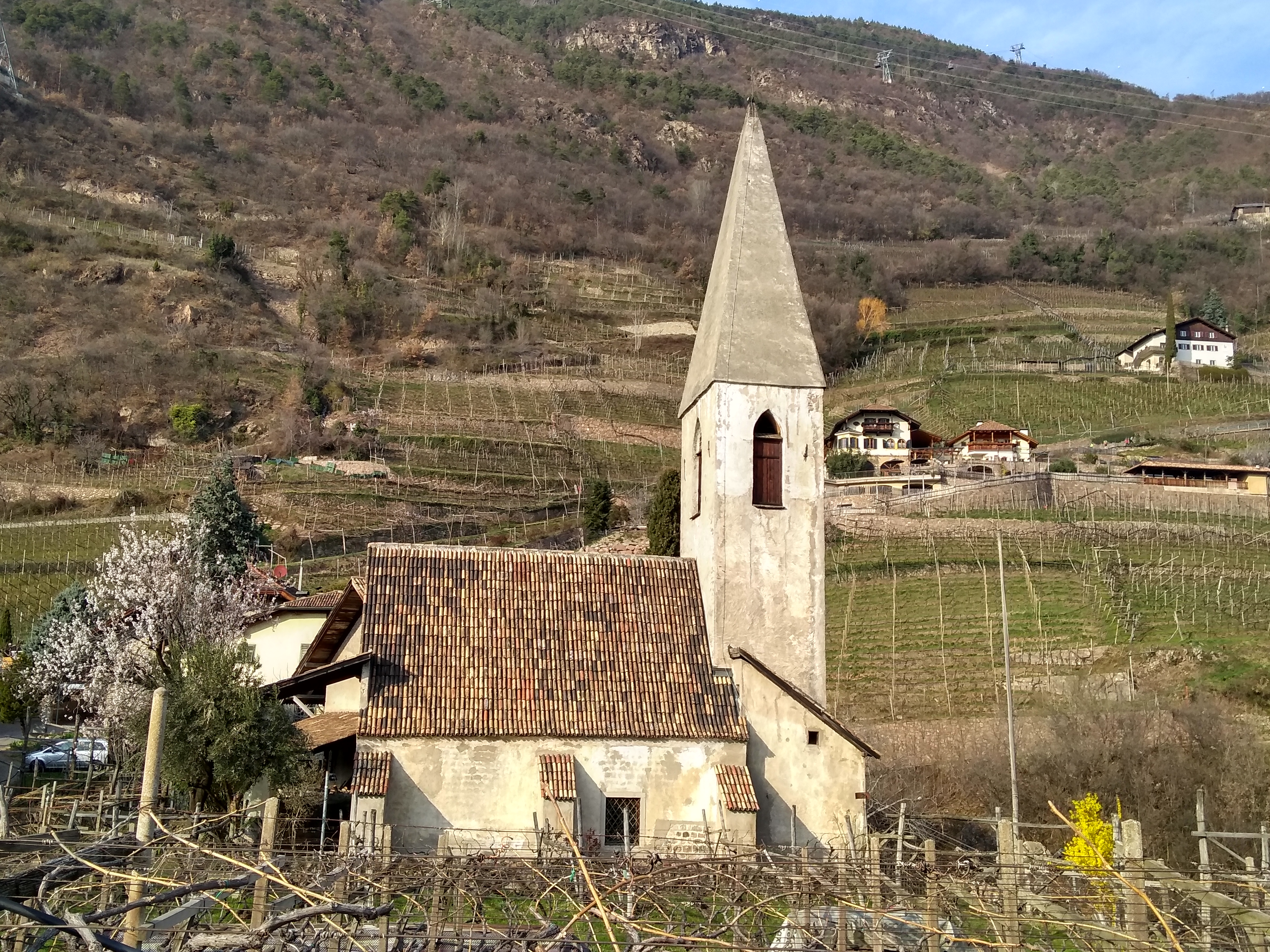 The church St. Magdalena in Prazöll near Bozen